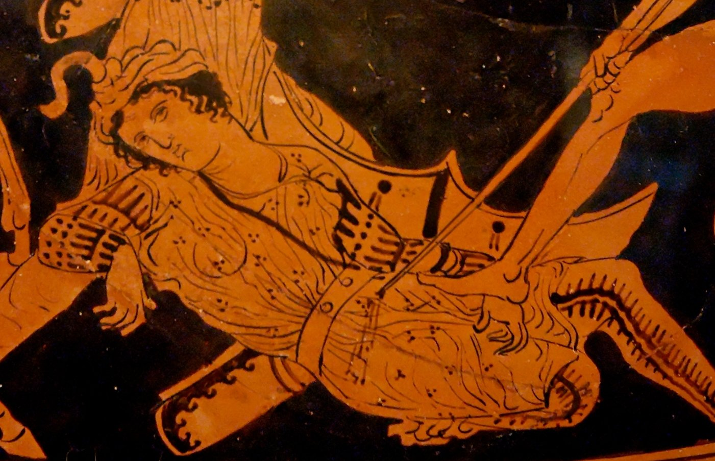 Detail from image:Death Sarpedon MNA Policoro.jpg, q.v.